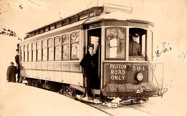 Portland Heights car 504 on a snowy day circa 1918. This route served Council Crest and was eventually renamed the Council Crest line. Car 504 was built in 1903 or 1904 by the J.G. Brill Company.